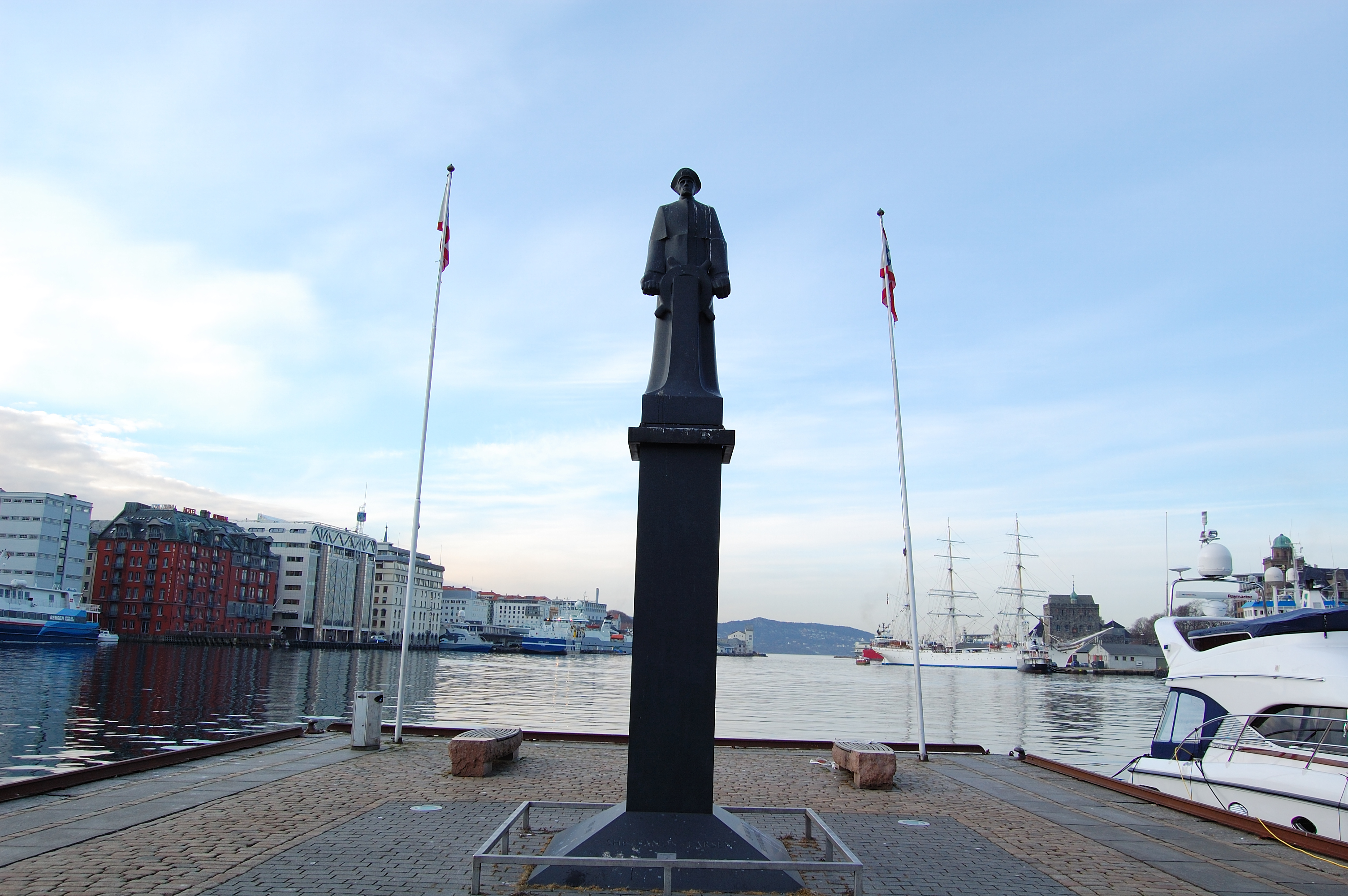 Statue of Leif Larsen in Bergen, Norway.